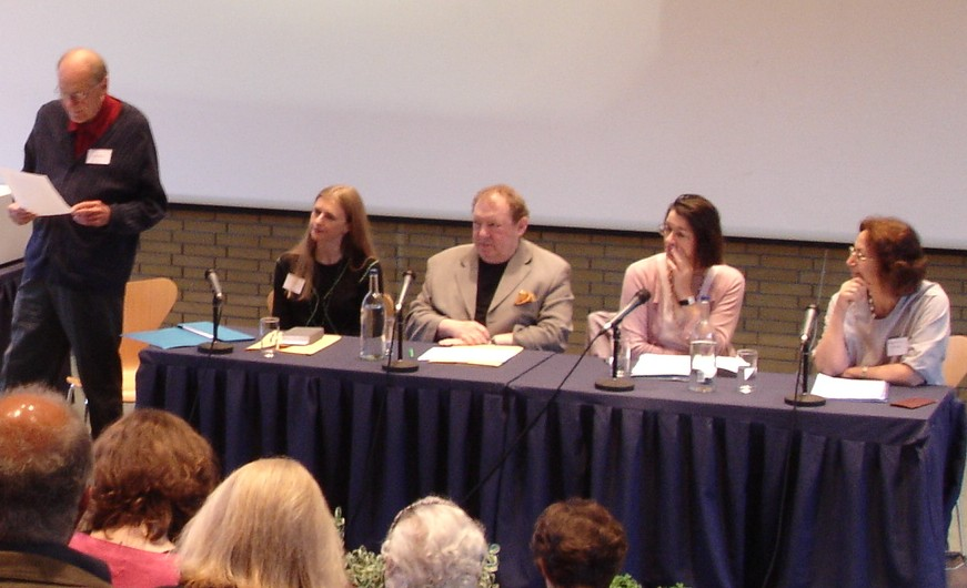 Oxford Symposium on Food & Cookery. Harlan Walker speaking on "Eggs in Cookery", the 2006 theme. Panellists, seated, left to right: Jane Levi, Paul Levy, Marina Warner, Claudia Roden